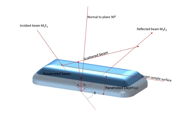 Typical geometrical configuration of Recoil spectrometry